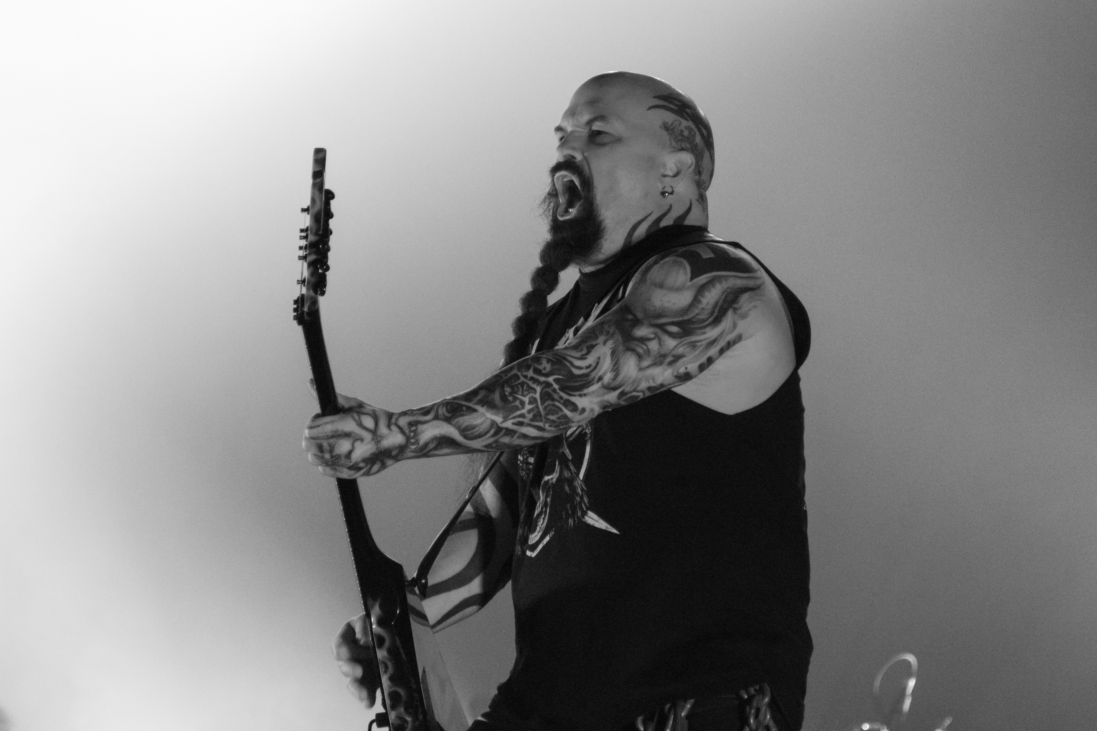 Kerry King from Slayer at the See-Rock Festival 2014